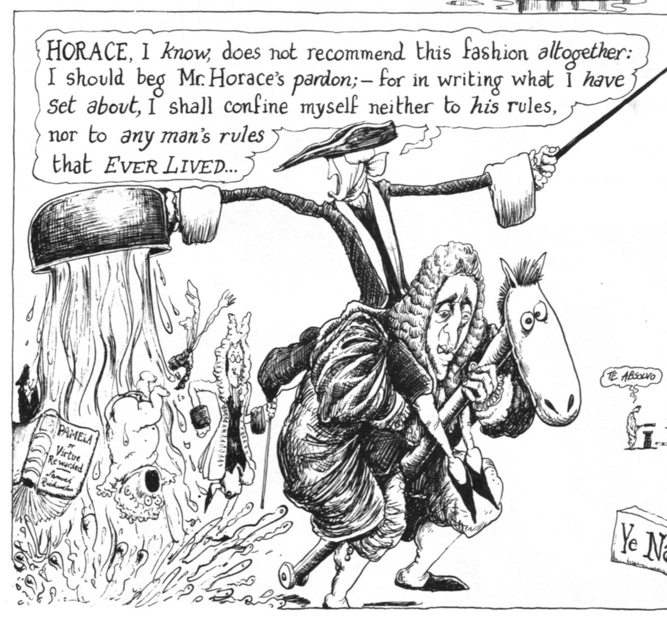 An original pen and ink drawing from page 7 of Martin Rowson's graphic novel reworking of The Life and Opinions of Tristram Shandy, Gentleman.